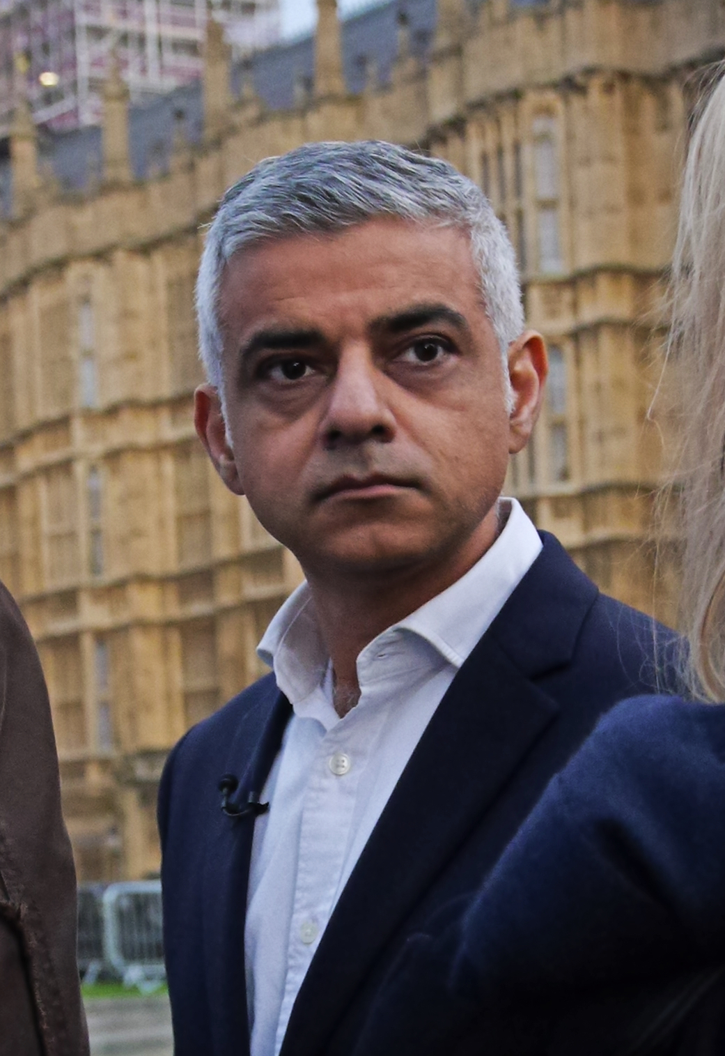 Sadiq Khan shortly before interview. Picture taken by Shayan Barjesteh van Waalwijk van Doorn.